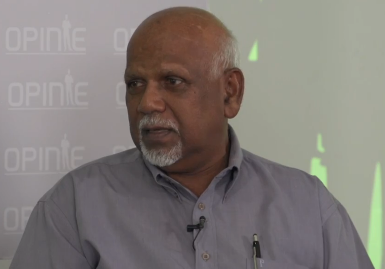 Maurits Hassankhan, Surinamese historian and former MInister of the Interior (2005-2010)